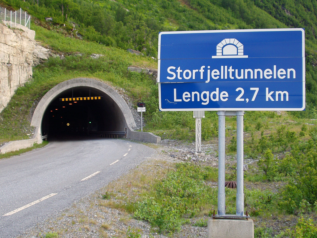 The eastern entrance of Storfjelltunnelen.